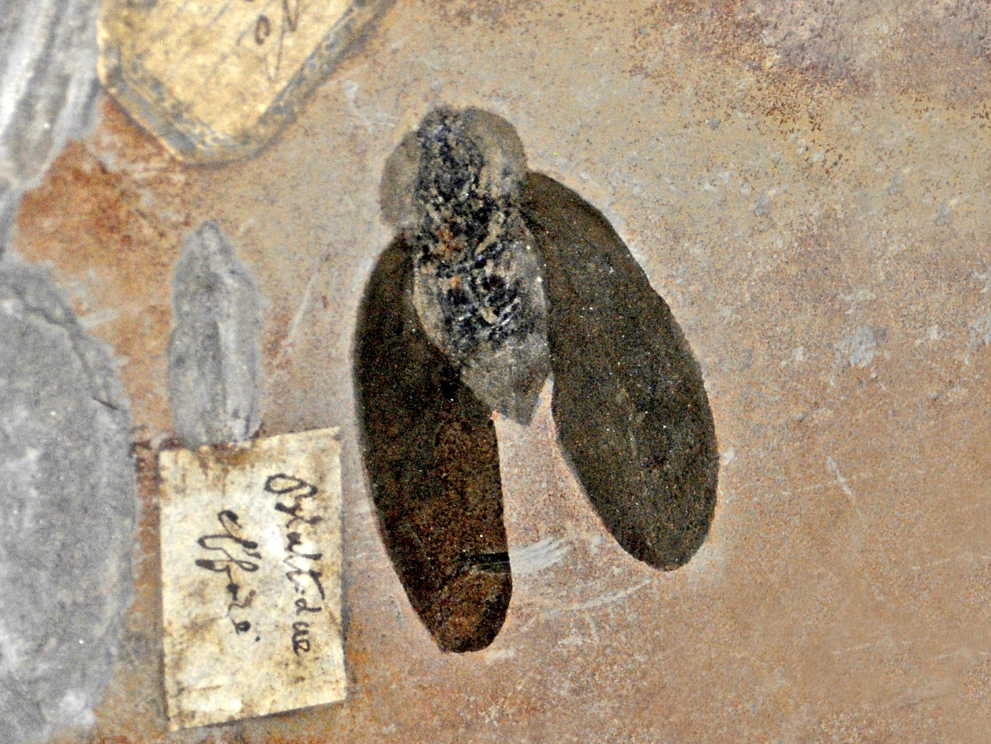 Fossil cockroach from Carbonioferous of France, on display at the Museo Civico di Storia Naturale di Milano